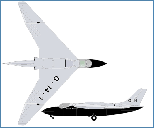 Shorts SC4 Sherpa Flying Wing